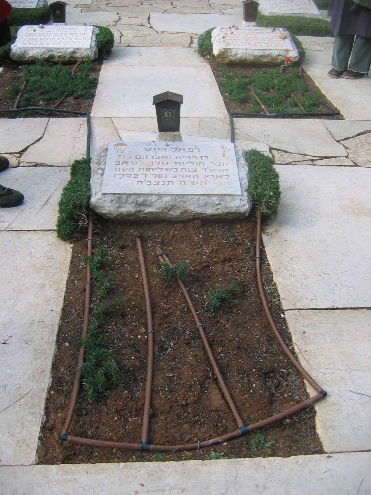 Grave of Rafael Reiss, a Jewish paratrooper sent to Slovakia to rescue European Jews from the Holocaust